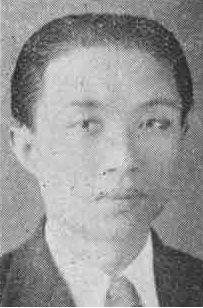 何景寮 Ho Keng-liau